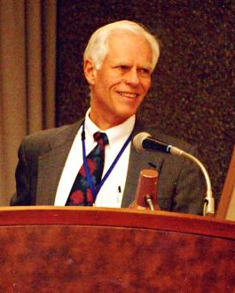 Dr. William M. Hartmann - at ASA meeting in Kyoto, Japan, April, 2004